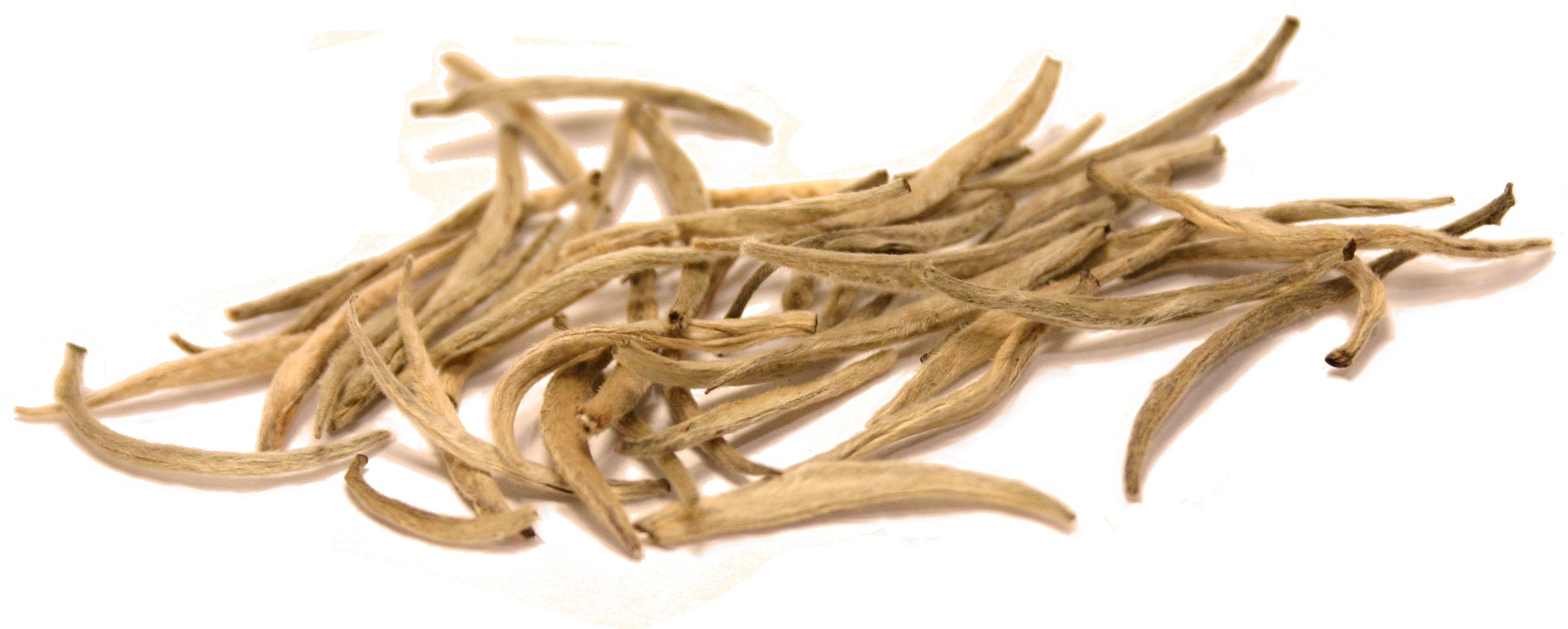 Meepitiya white tea (Silver Tips) - a white tea known as Yin Zhen type of Sri Lanka (Ceylon). camera: Canon EOS 300D camera